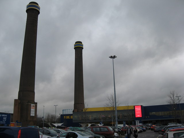 The chimneys at IKEA, Purley Way, Croydon The two chimneys were part of the old Croydon 'B' Power Station . They were built in the late 1940s. The power station opened in 1950, shut down in 1984, and was demolished in 1991. An IKEA store was opened on the site and the chimneys were retained and remain a local landmark.